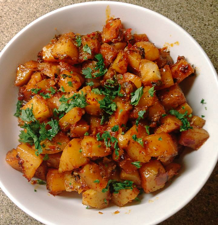 Dersa sauce, coriander and potatoes (batata chtitha)